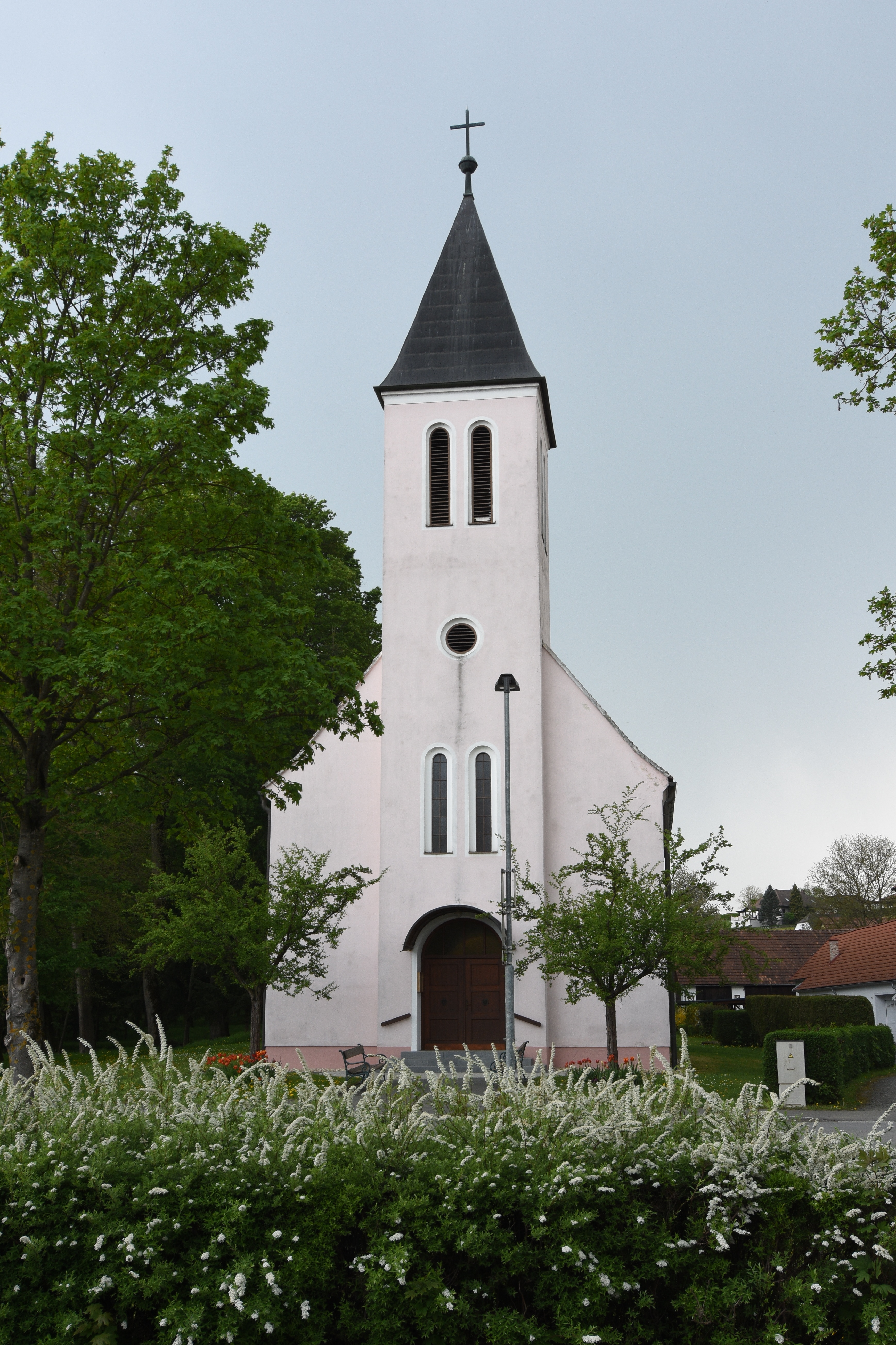 Church Filialkirche Sulz im Burgenland